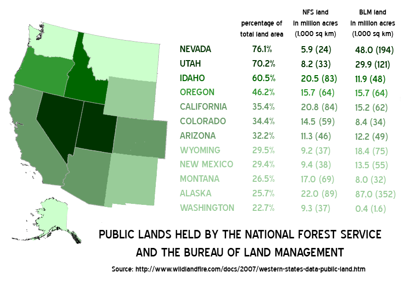 Public lands held by the National Forest Service and the Bureau of Land Management in the Western US. Data from